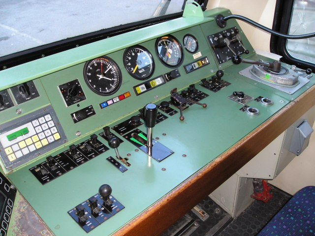 Führerstand Baureihe 628.4 / Cab of a DMU Class 628.4